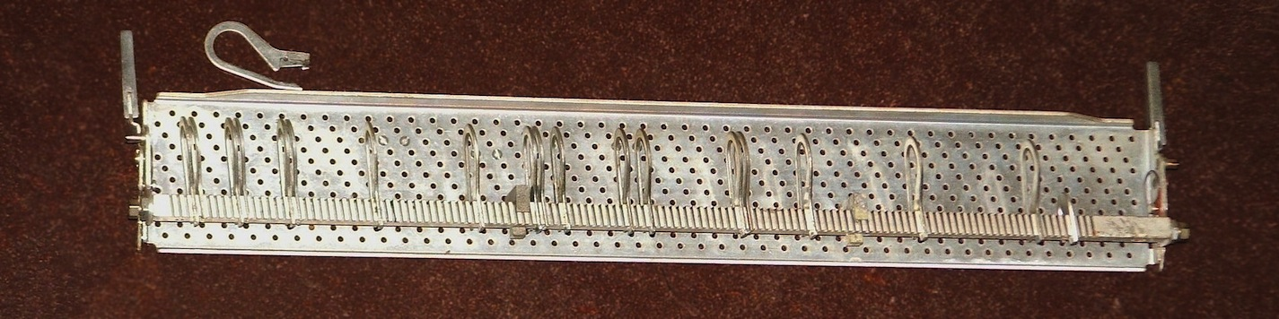 The tab rack from a Singer/Friden model 2201 Flexowriter. One tab clip on the upper left has been removed from the rack. on the upper left. On late-model Flexowriters, the tab-rack is a removable part so that tab racks for different commonly used forms can be swapped in and out without the need to reset numerous tabs each time a different form is used.